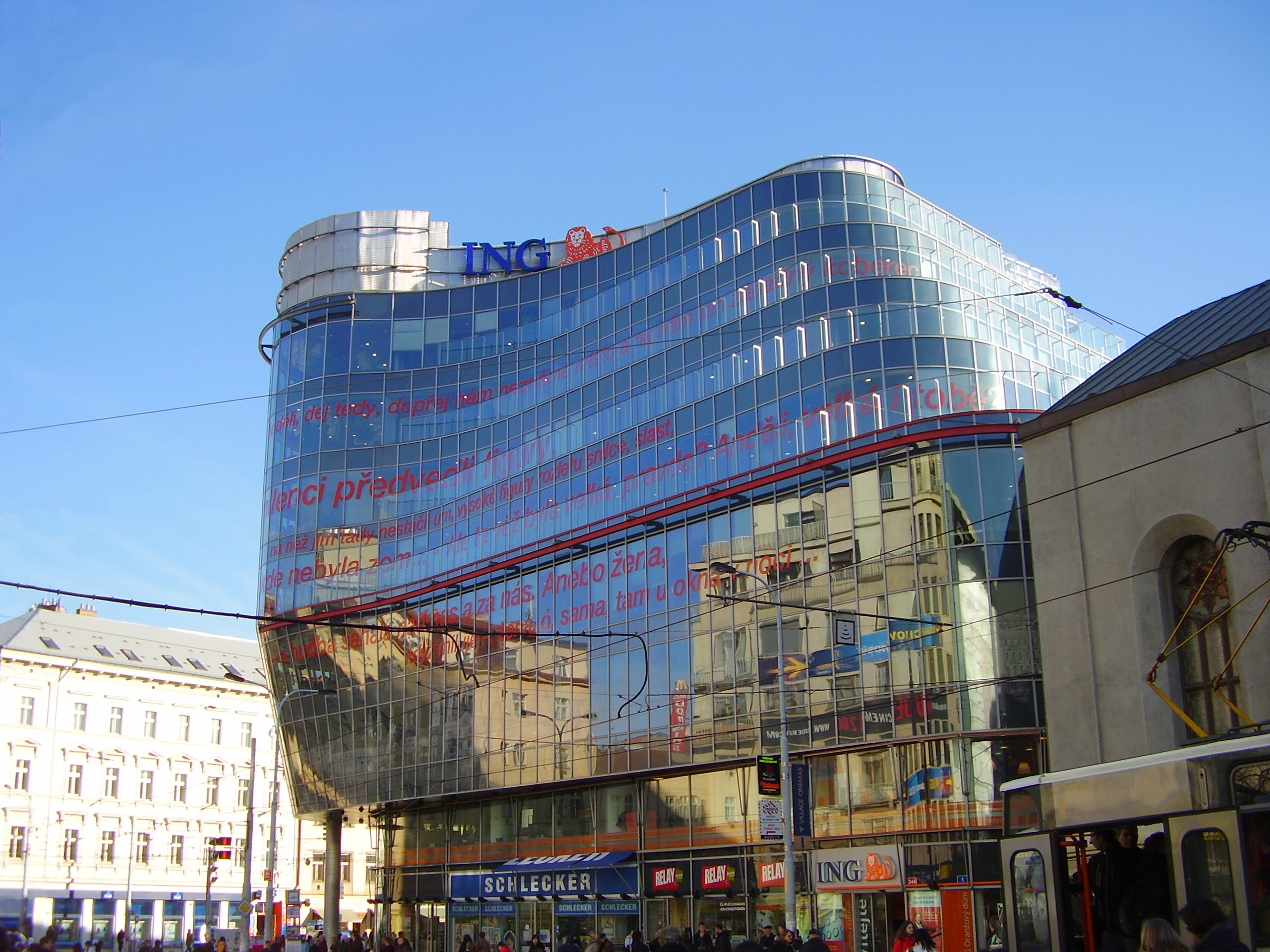 Building Zlatý Anděl in Prague, Smíchov, designed by Jean Nouvel